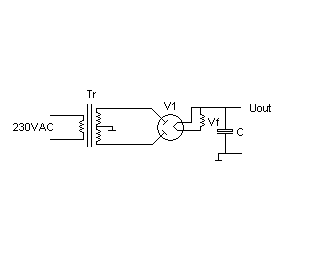 Tube full wave rectifier